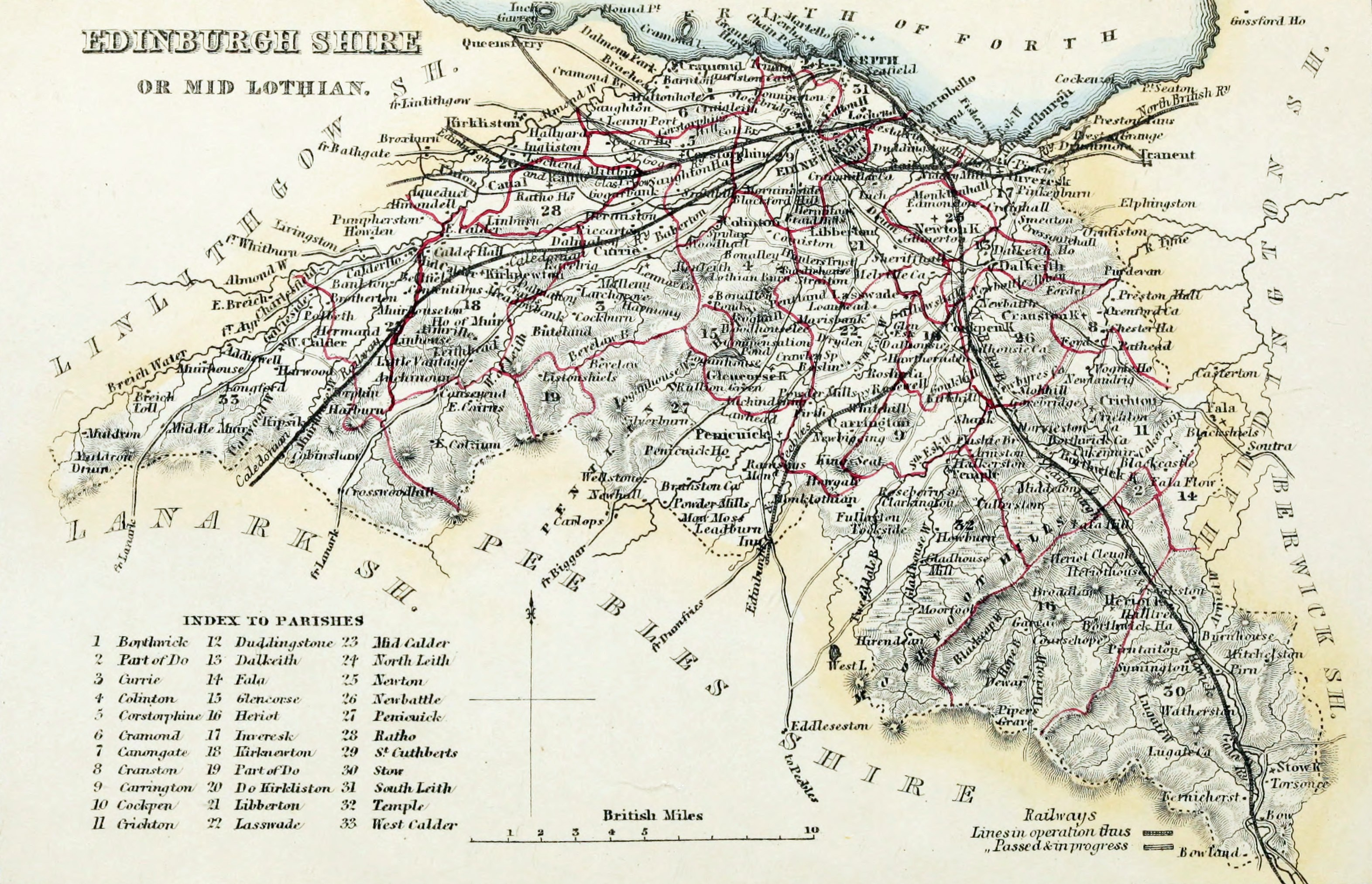 EDINBURGHSHIRE or MIDLOTHIAN Civil Parish map. The Imperial gazetteer of Scotland. Vol.I. by Rev. John Marius Wilson.